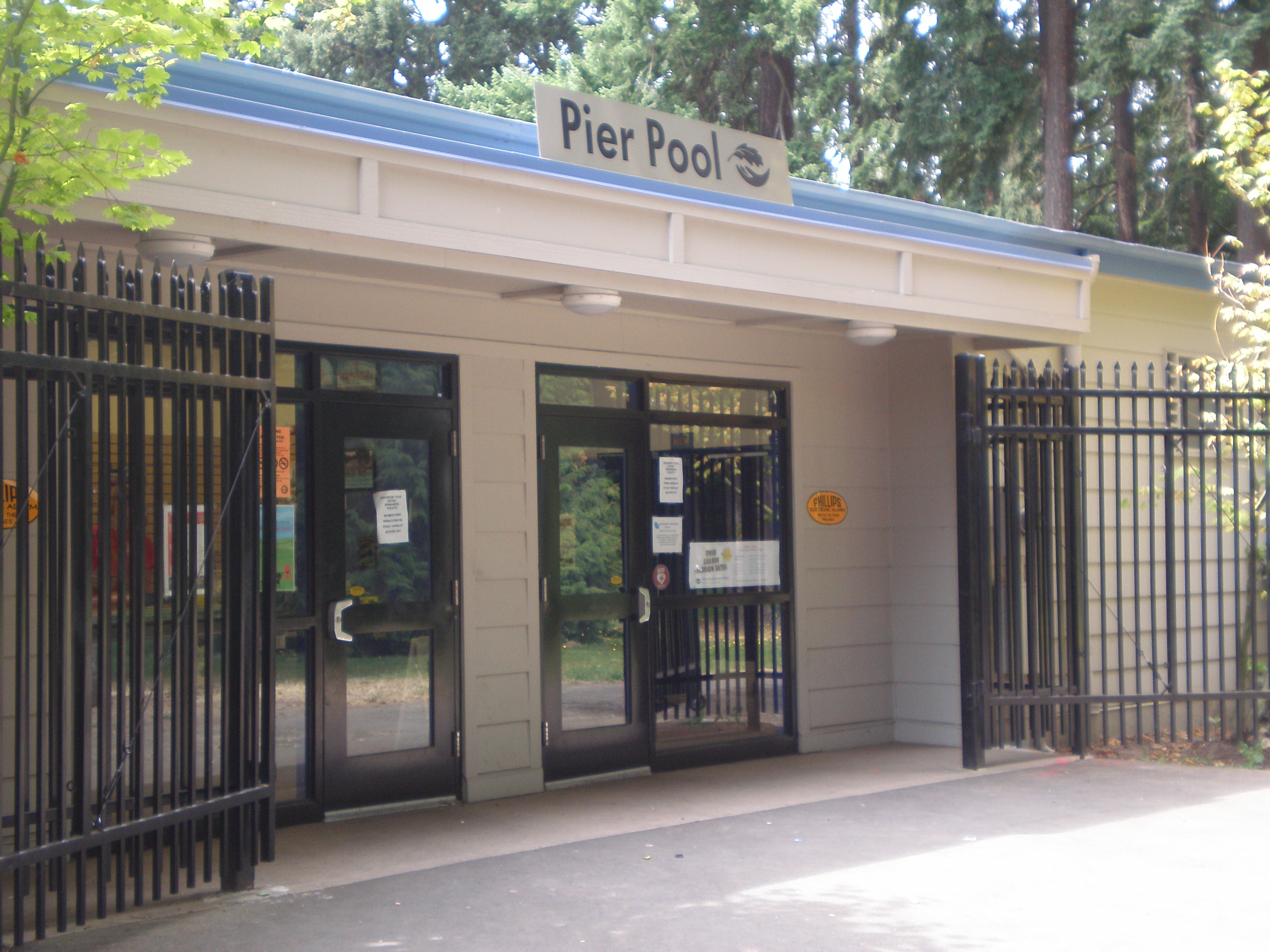 Entrance to Pier Pool, located at N Seneca Street and St. Johns Avenue in St. Johns, Portland, Oregon